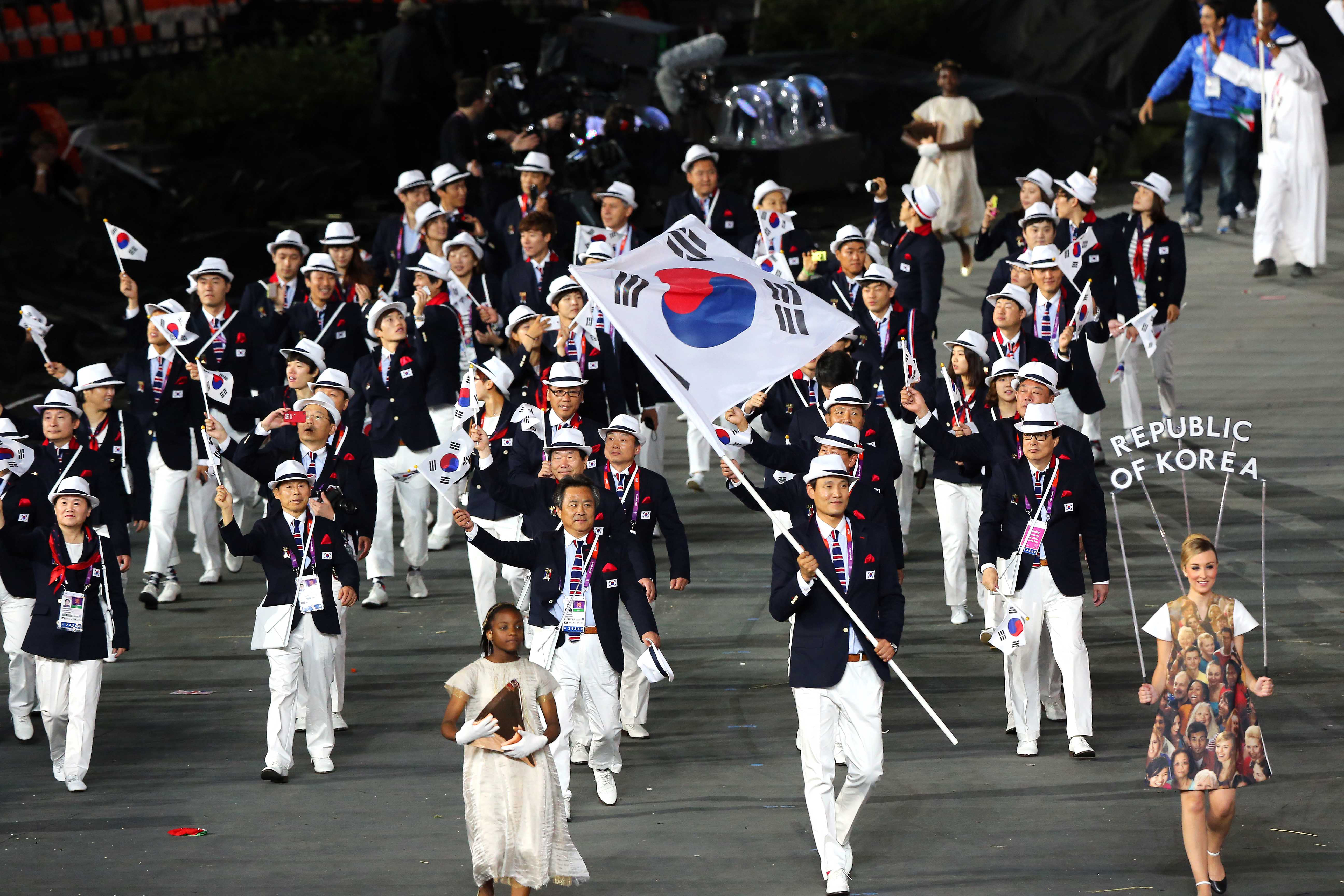 2012 London Olympic Games Opening Ceremony. Team Korea